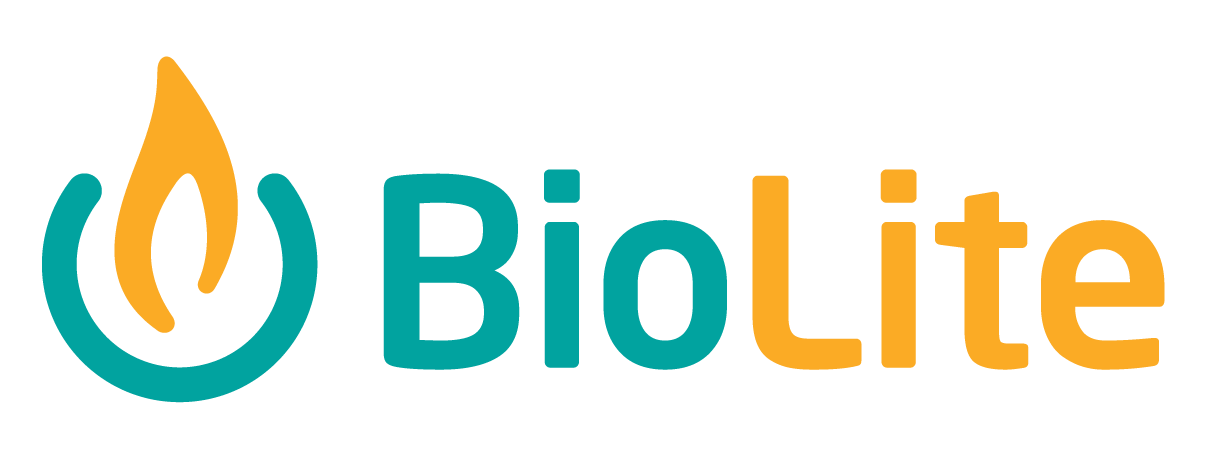 This is the logo of BioLite, a company which makes sustainable, clean stoves.